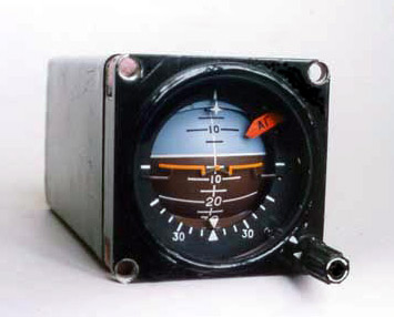 The attitude indicator (Artificial Horizon) — AGB-3 (Russian system with rolling aircraft symbol)